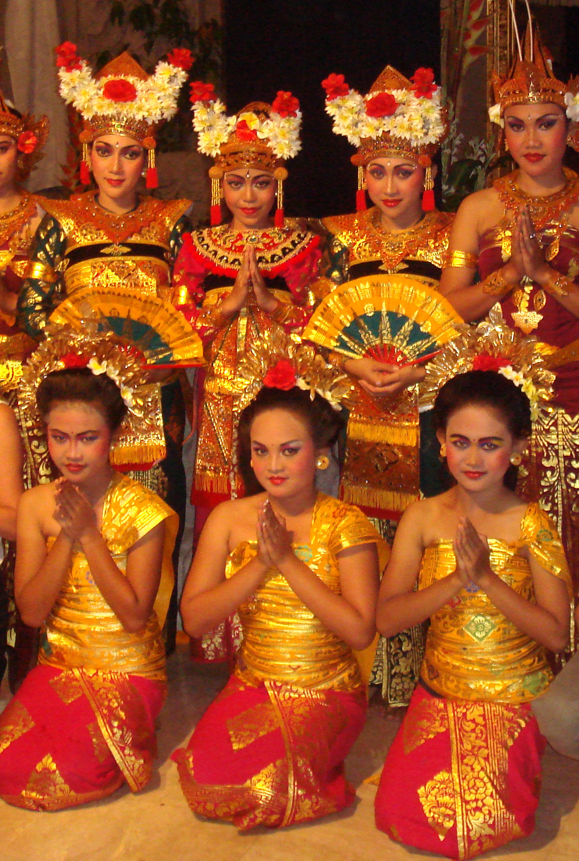 Balinese_dancers Ubud